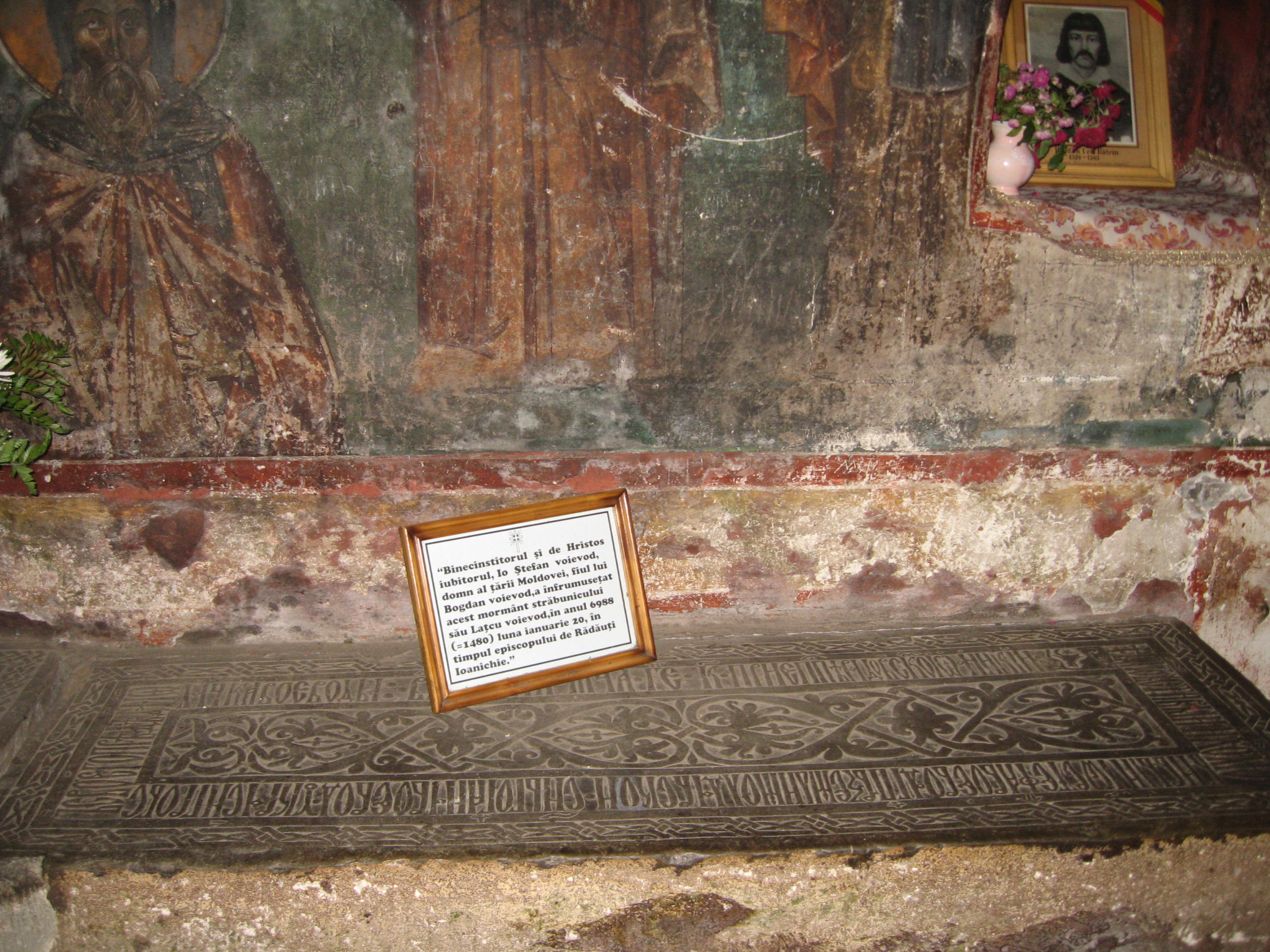 Bogdana